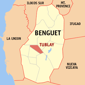 Map of Benguet showing the location of Tublay